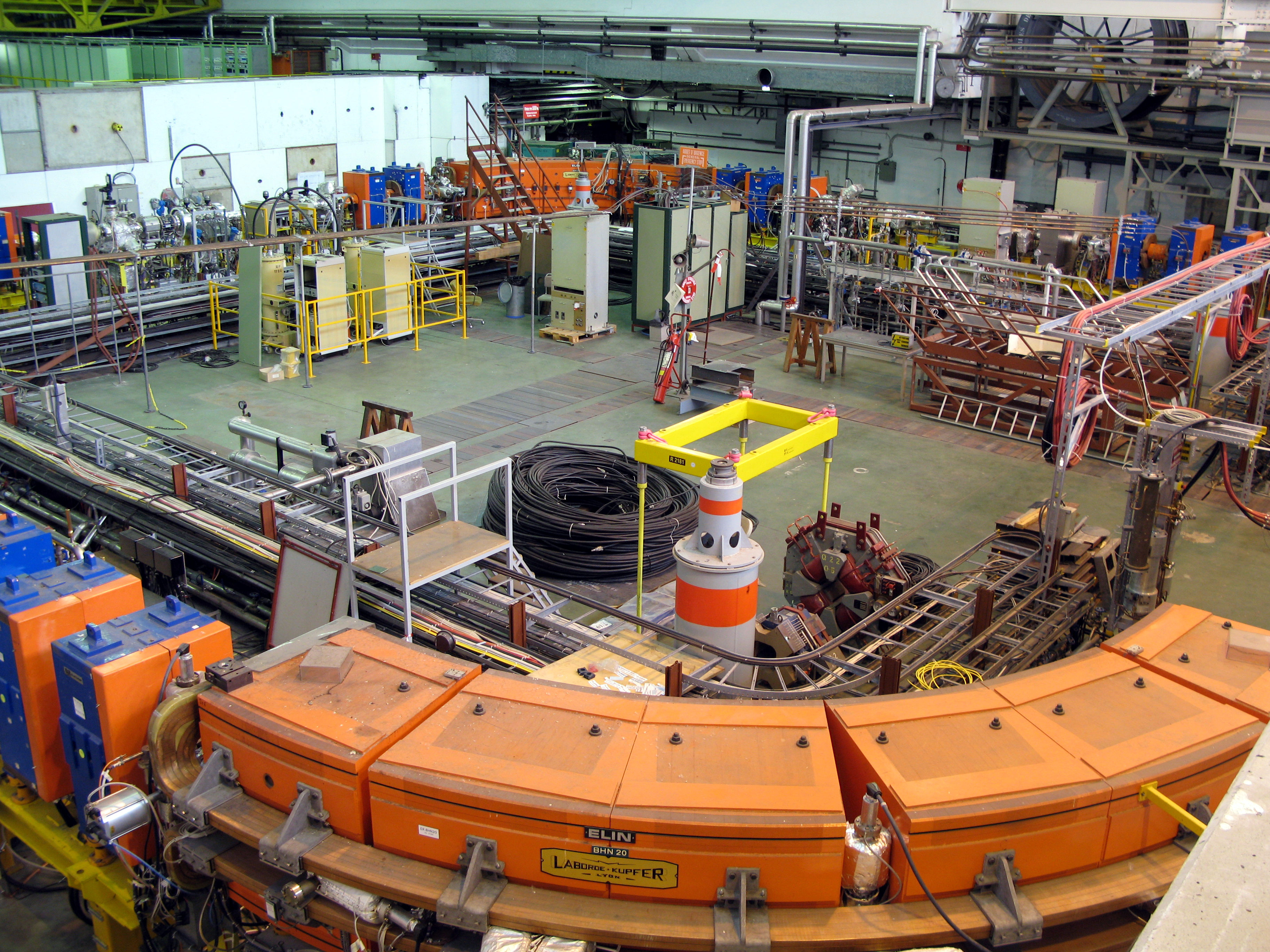 LEIR (Low Energy Ion Ring) at CERN